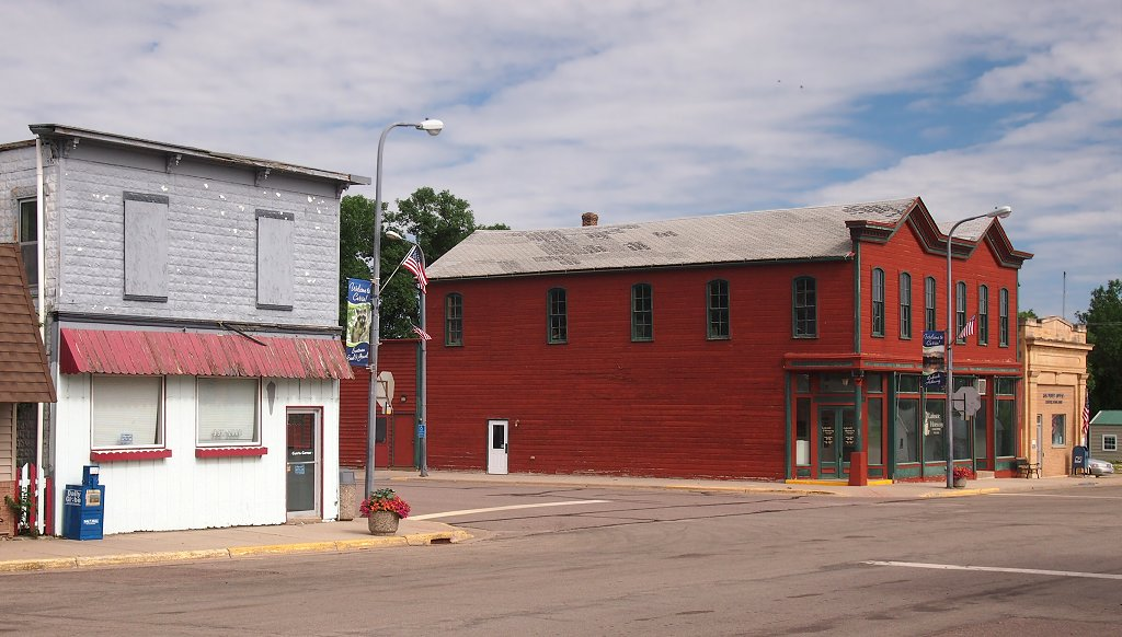 View on Mill Street northwest toward 1st St, Currie, Minnesota, USA.